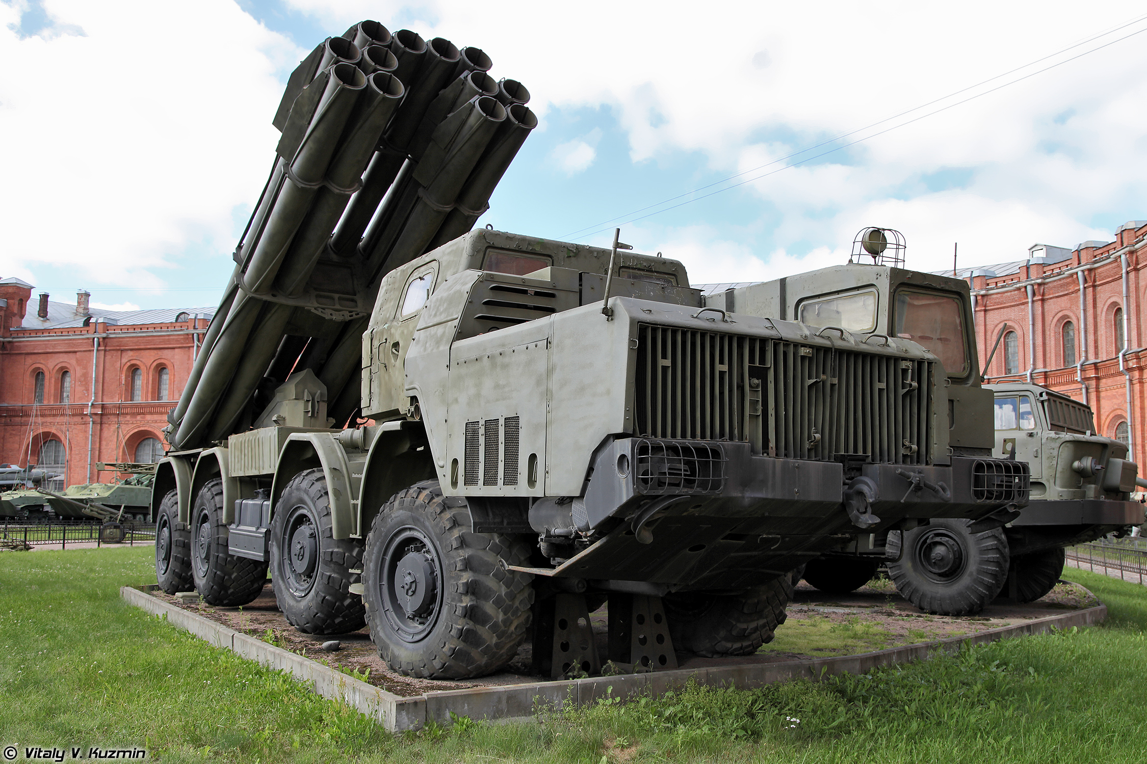 9A52 combat vehicle 9K58 Smerch MLRS